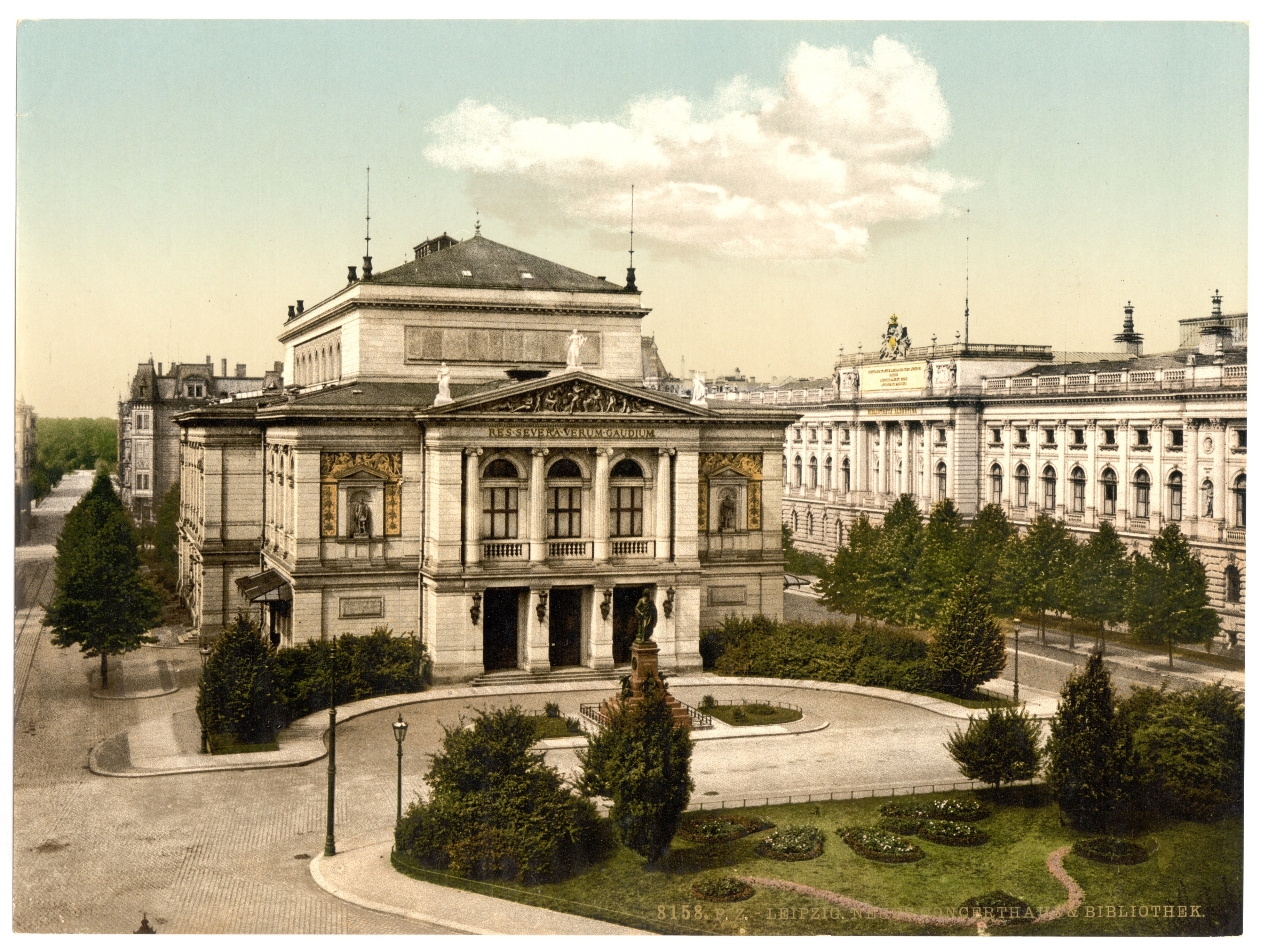 Leipzig, Germany: Konzerthaus (the second "Gewandhaus", opened 1884, destroyed 1943/1944)